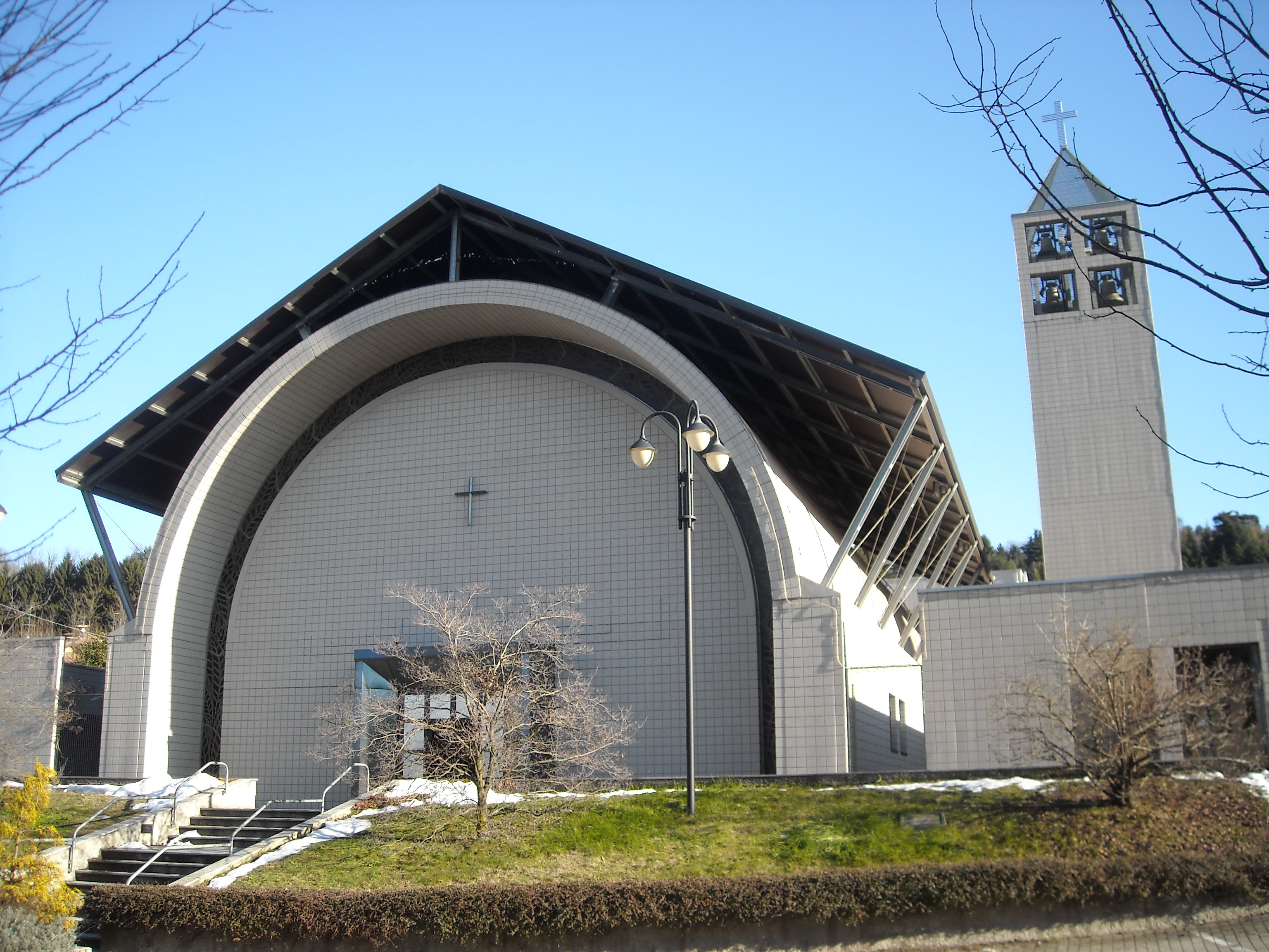 Parish Church of the Assumption, Senna Comasco, Como, Italy